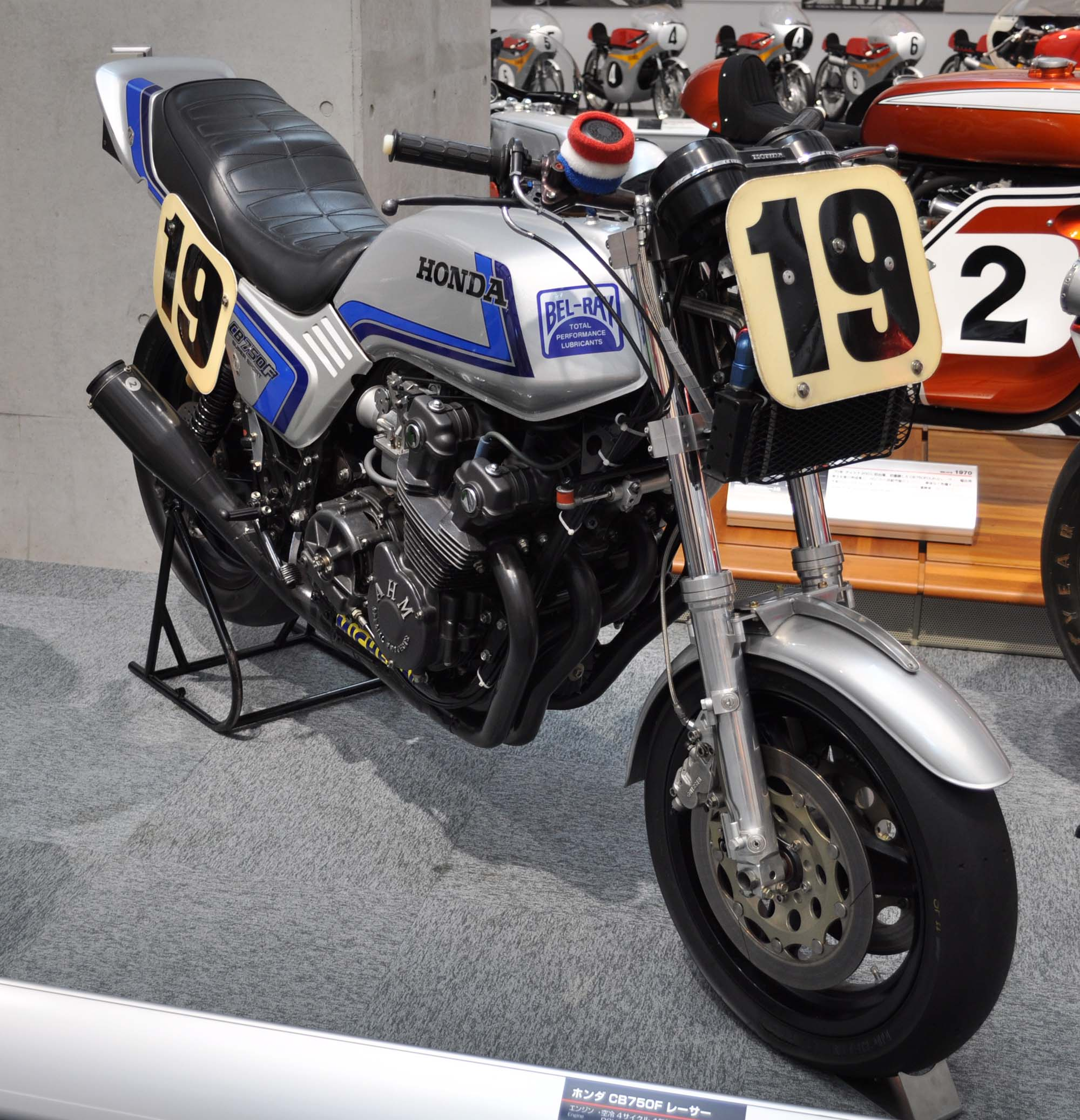 Honda CB750F for the AMA Superbike Championship (Freddie Spencer, Daytona 100 in 1982)